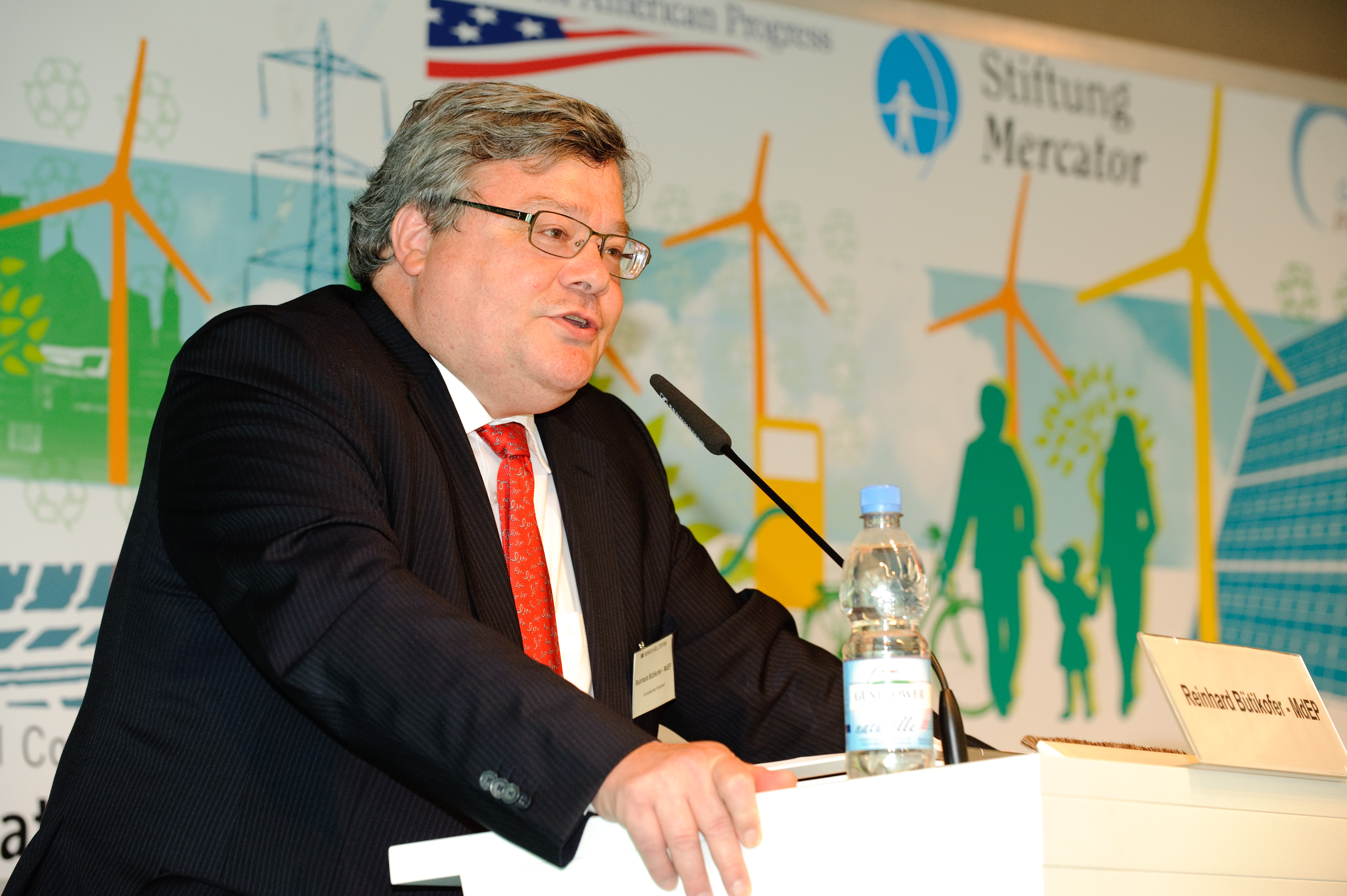 Foto: Stephan Röhl